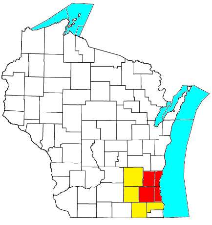 Locator map of the Milwaukee-Racine-Waukesha Metropolitan Statistical Area in the southeastern part of the U.S. state of Wisconsin.